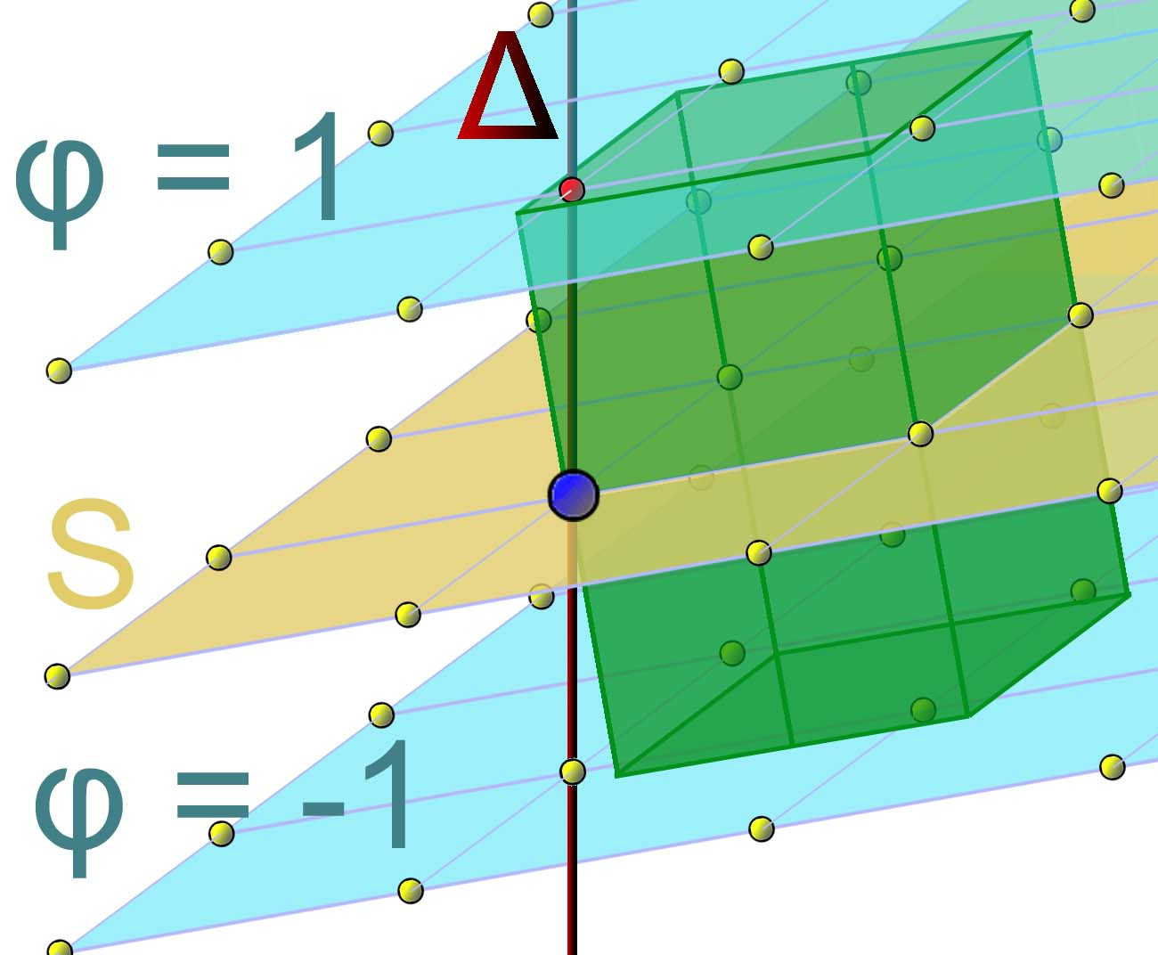 Existence of a base, in a lattice (group)